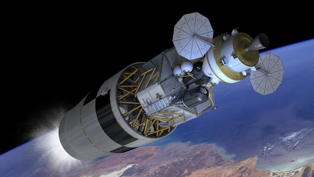 Artist’s concept of NASA’s Orion crew exploration vehicle and Altair Lunar Lander while the Earth departure stage performs the trans-lunar injection burn (JSC2009-E-031248).